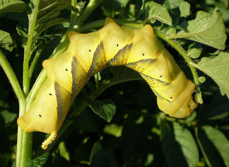 Near Tàrrega, Lleida, Catalonia.